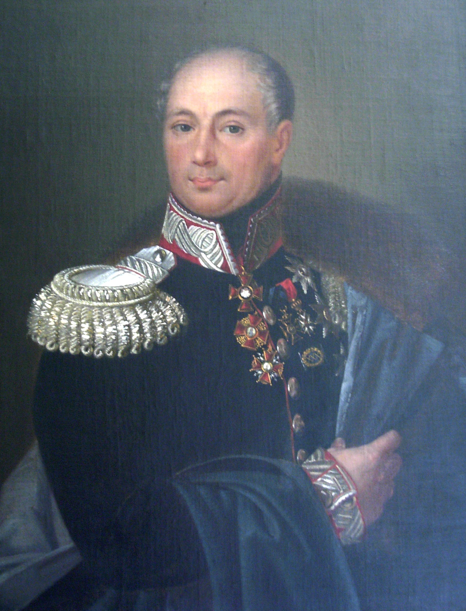 Łańcut Castle and neighbourhood. Many photos courtesy of Łańcut Museum staff. general Stanisław Potocki (1776-1830)